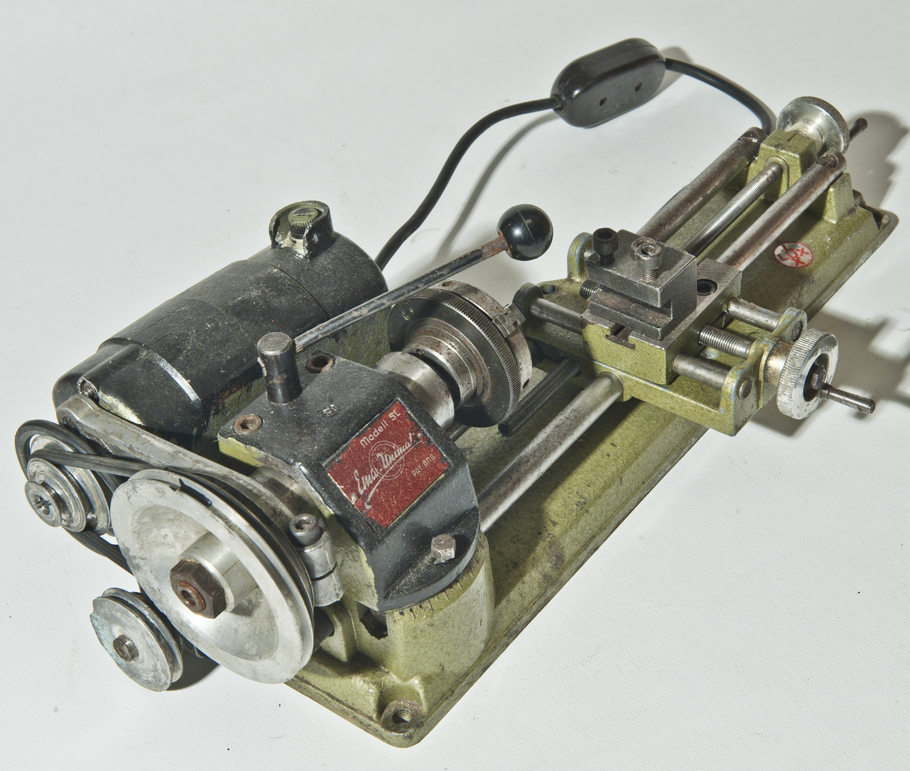 Turning lathe from EMCO